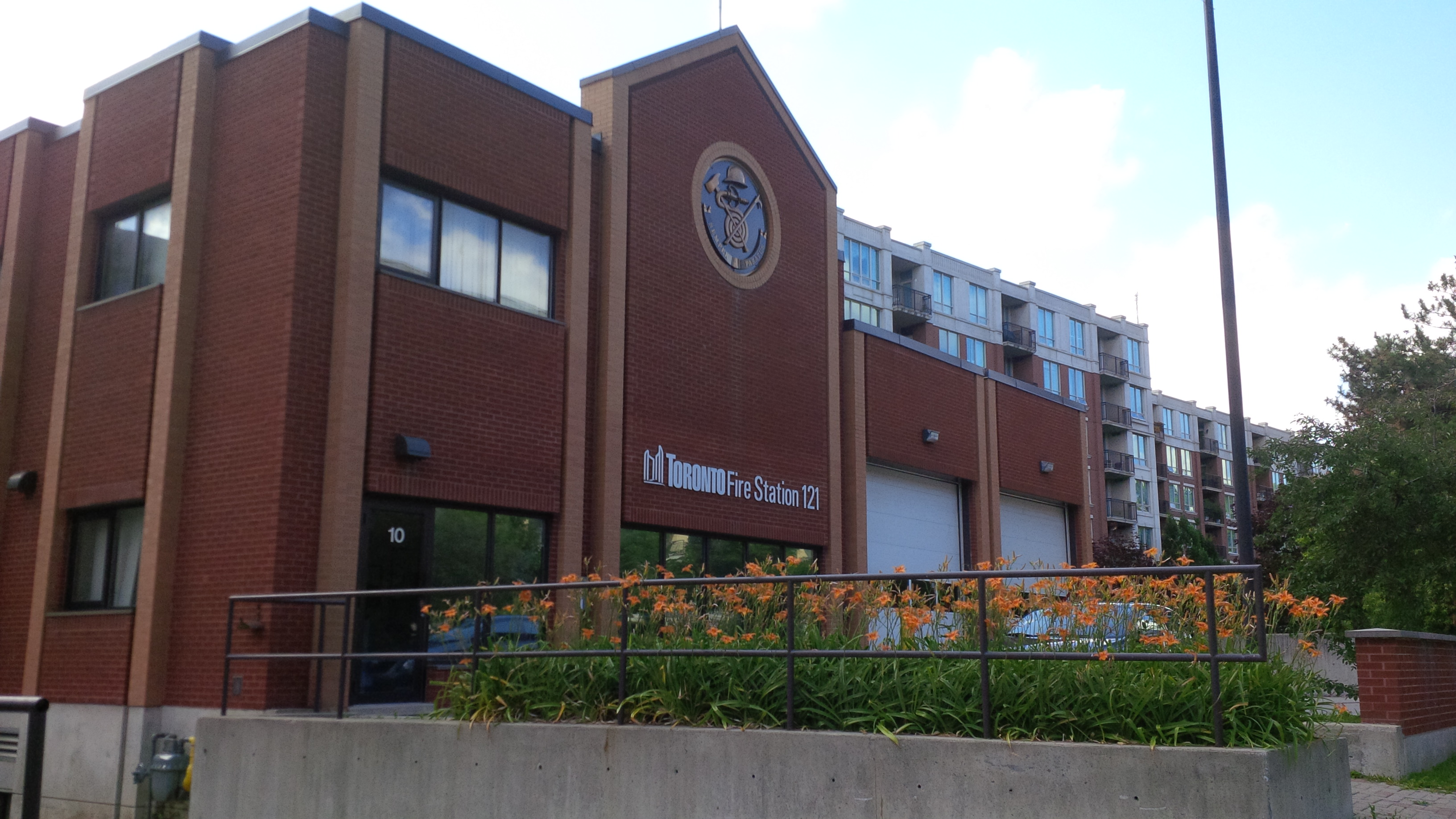 Station 121 William Carson Crescent